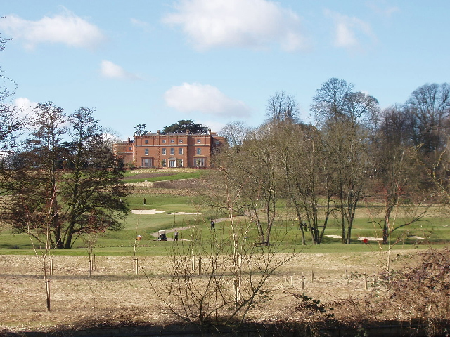 The Grove and golf course, Watford. The Grove is now a hotel and golf course, and its history link. It was bought in 1753 by Thomas Villiers, who became 1st Earl of Clarendon. It has been a school, and a training centre for British Rail.